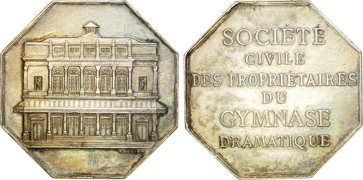 Jeton à l'effigie du Théâtre du Gymnase